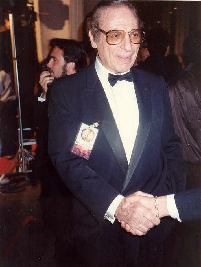 Irv Kupcinet at the 62nd Annual Academy Awards, 3/26/90 - Permission granted to copy, publish, broadcast or post but please credit "photo by Alan Light" if you can